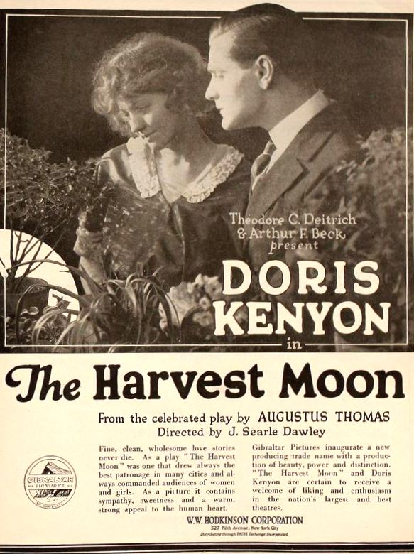 Ad for the American film The Harvest Moon (1920) with Doris Kenyon and Wilfred Lytell, on page 3599 of the April 24, 1920 Motion Picture News.